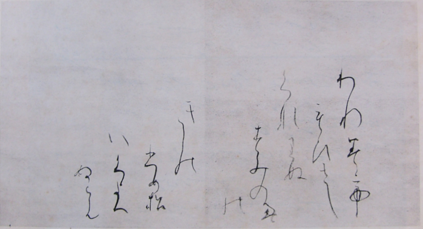 TUGI_SHIKISI (Calligraphy Sheet Jointed), Ink on Paper, 12th century, Japan